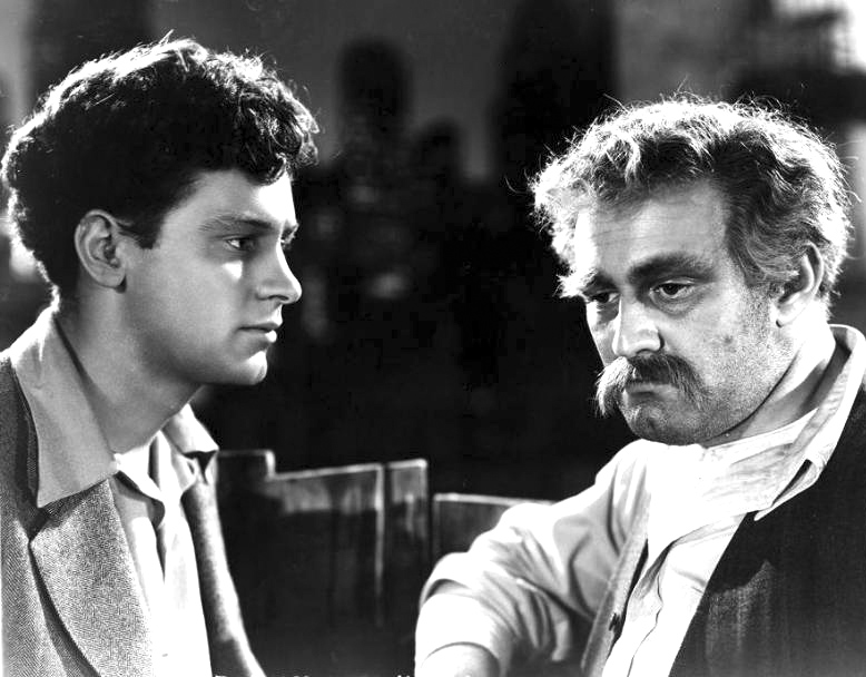 Publicity photo of William Holden and Lee J. Cobb in film Golden Boy (1939). See also: film still article.